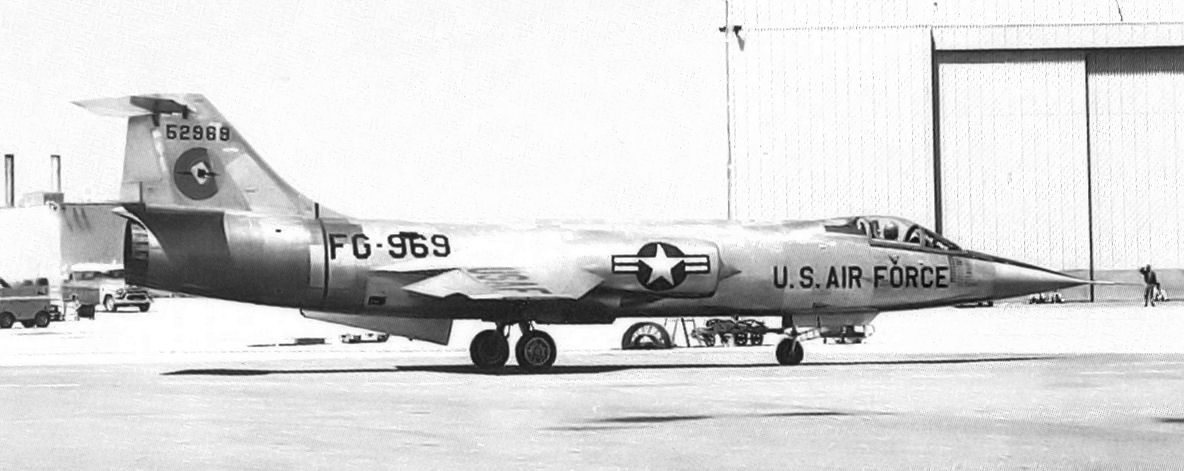 83d Fighter-Interceptor Squadron Lockheed YF-104A Starfighter 55-2969. Sent to 83d FIS, Hamilton AFB early 1958 in first production deployment of the Starfigher to operational service.